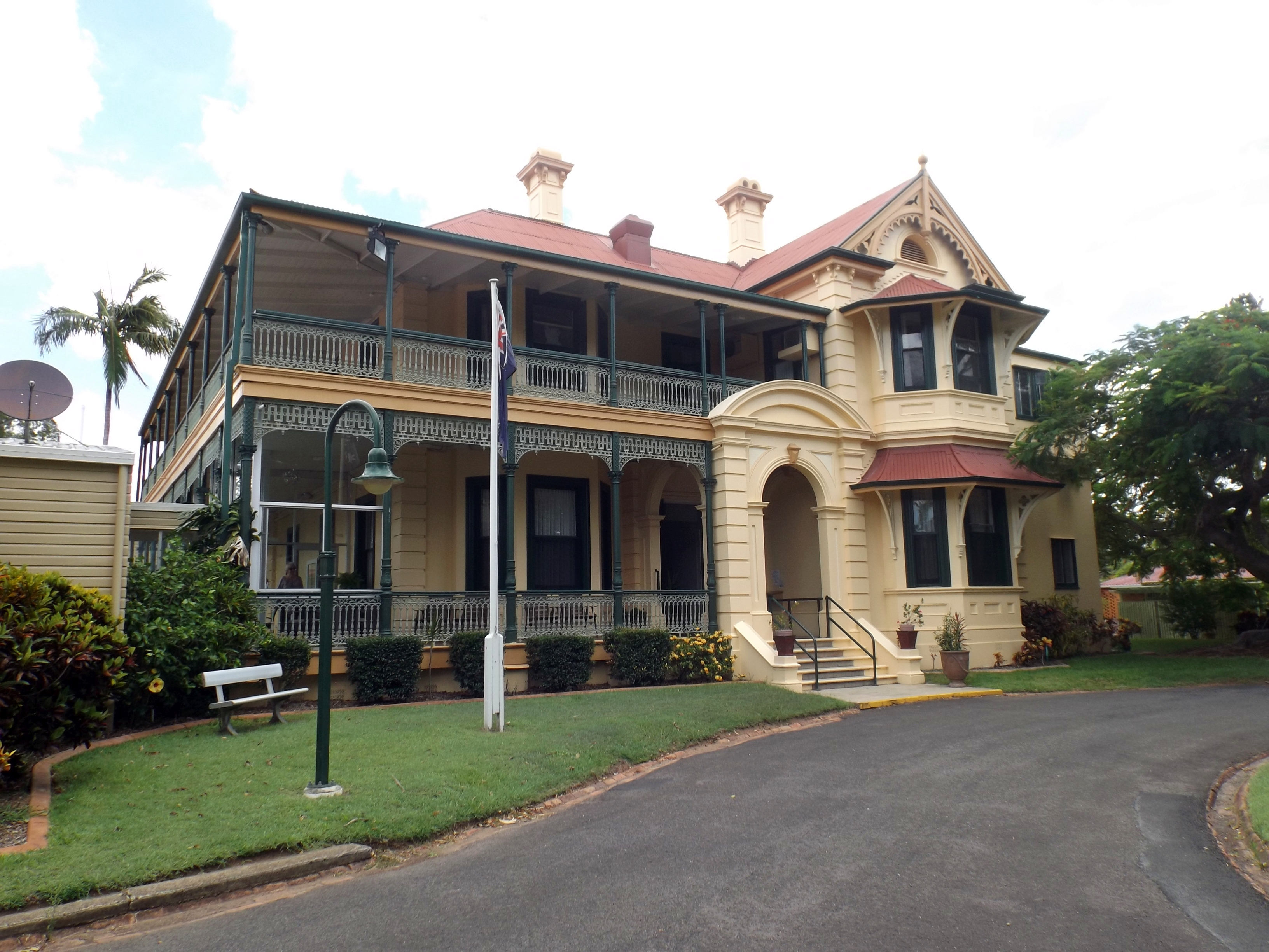 Photo of Beth-Eden at Graceville, Brisbane, Queensland, Australia.